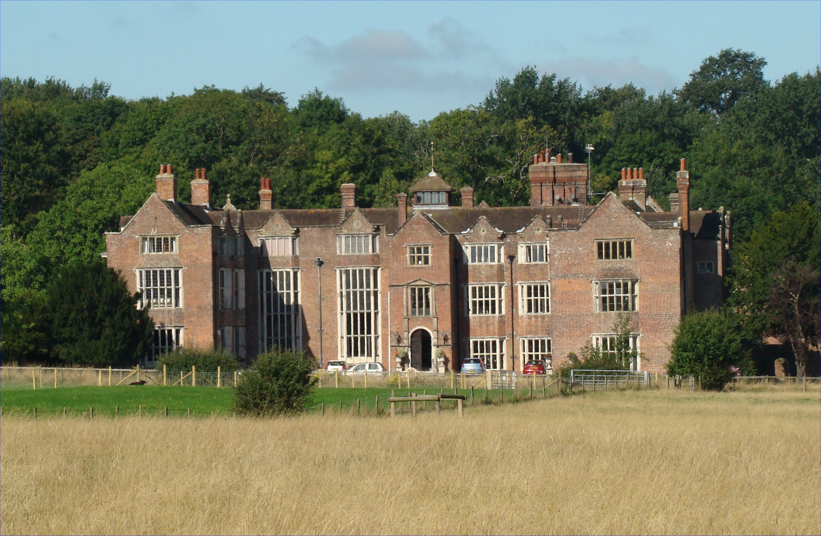 Eastern Elevation of Danny House Sussex